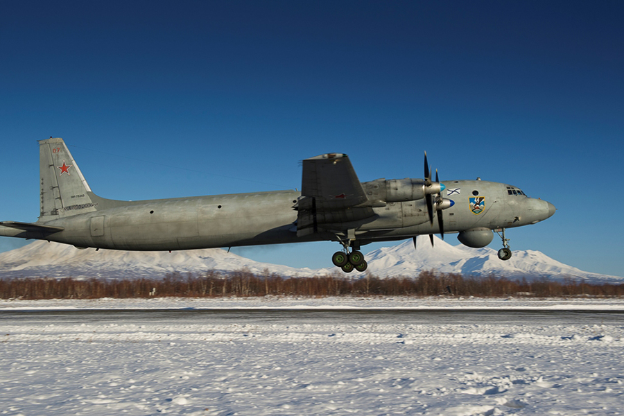 Russian Navy Ilyushin Il-38 landing at Elizovo